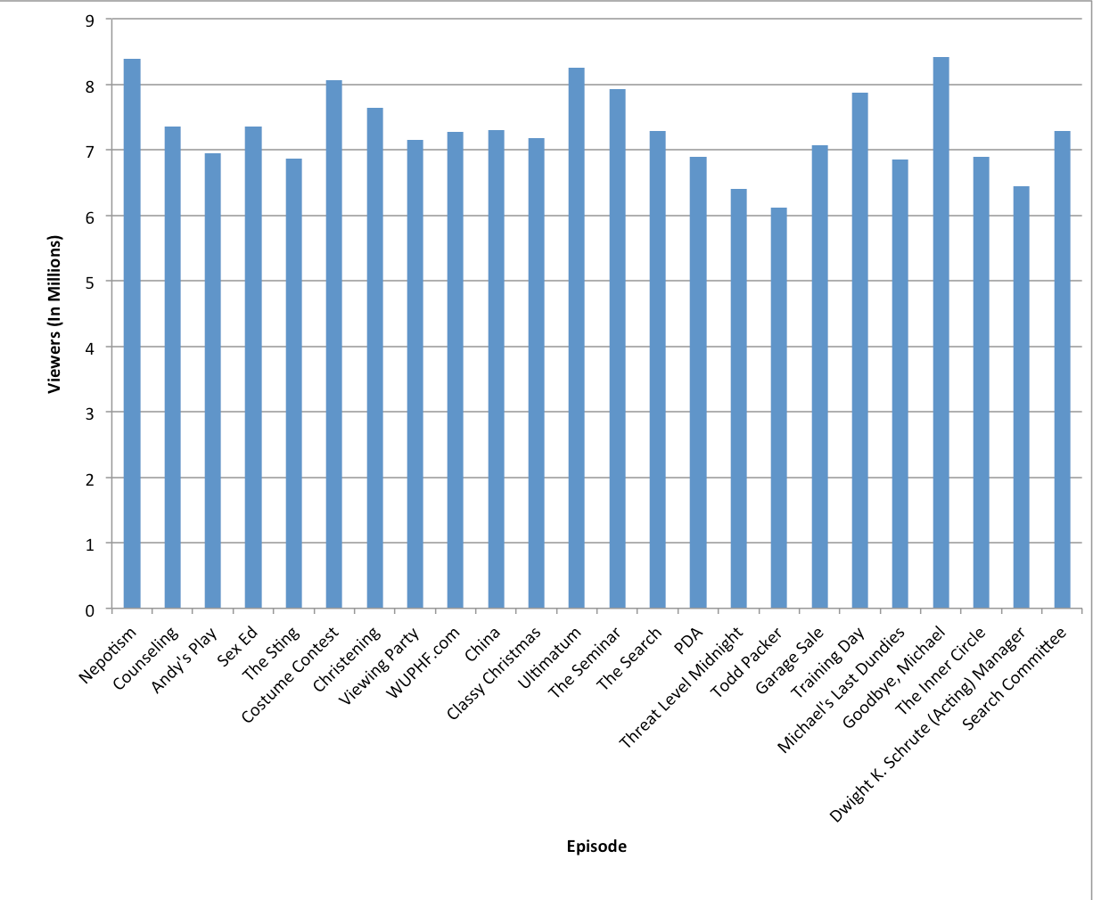 A ratings chart for season 7 of The Office